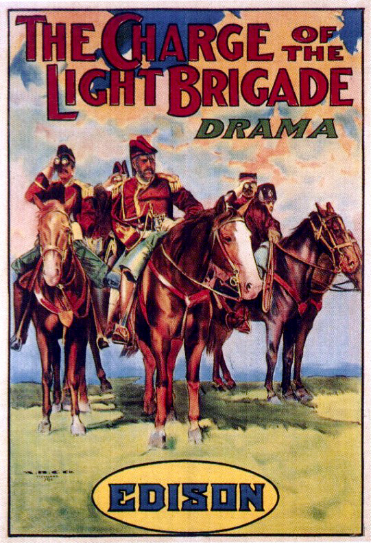 Poster for the 1912 film The Charge of the Light Brigade; image based on film still widely circulated in 1912 trade publications to promote the Edison release.